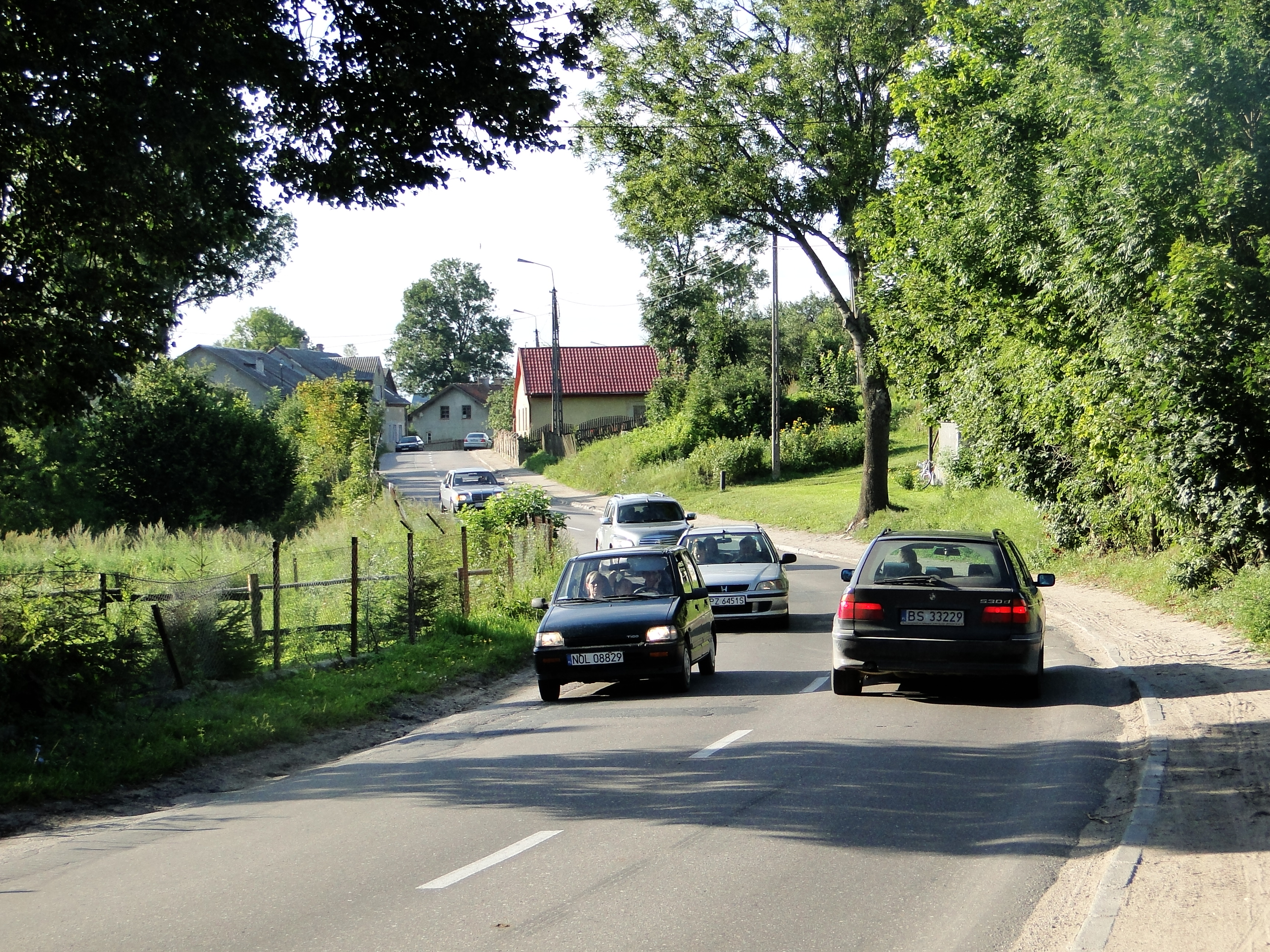 Stare Kiełbonki, Poland. National road 58/59